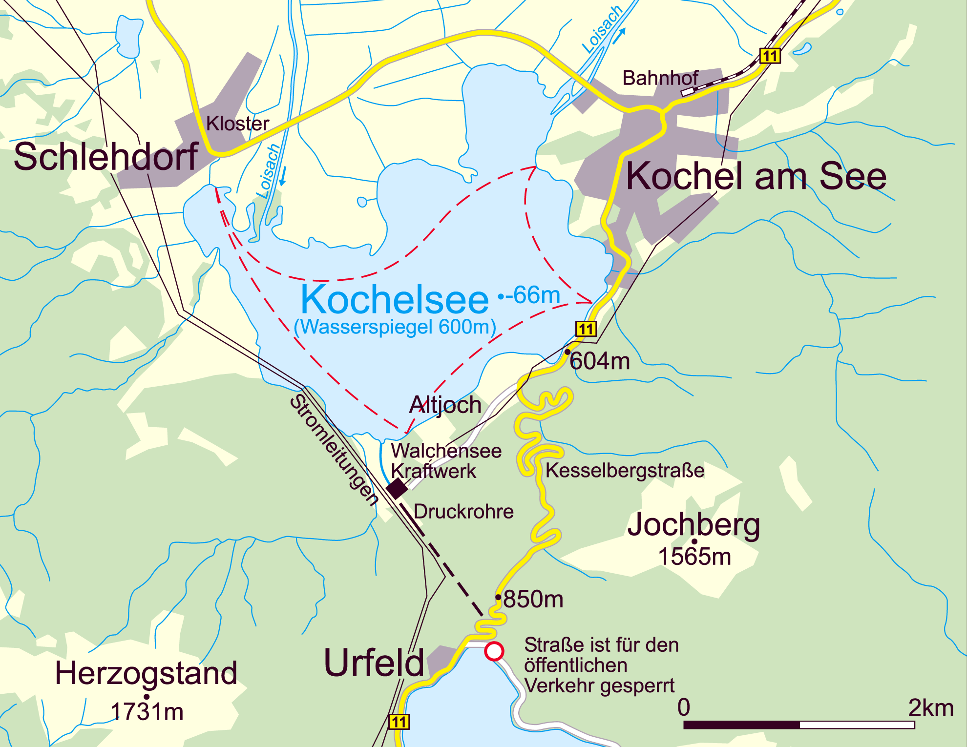 Kochelsee (Lake) in Upper Bavaria